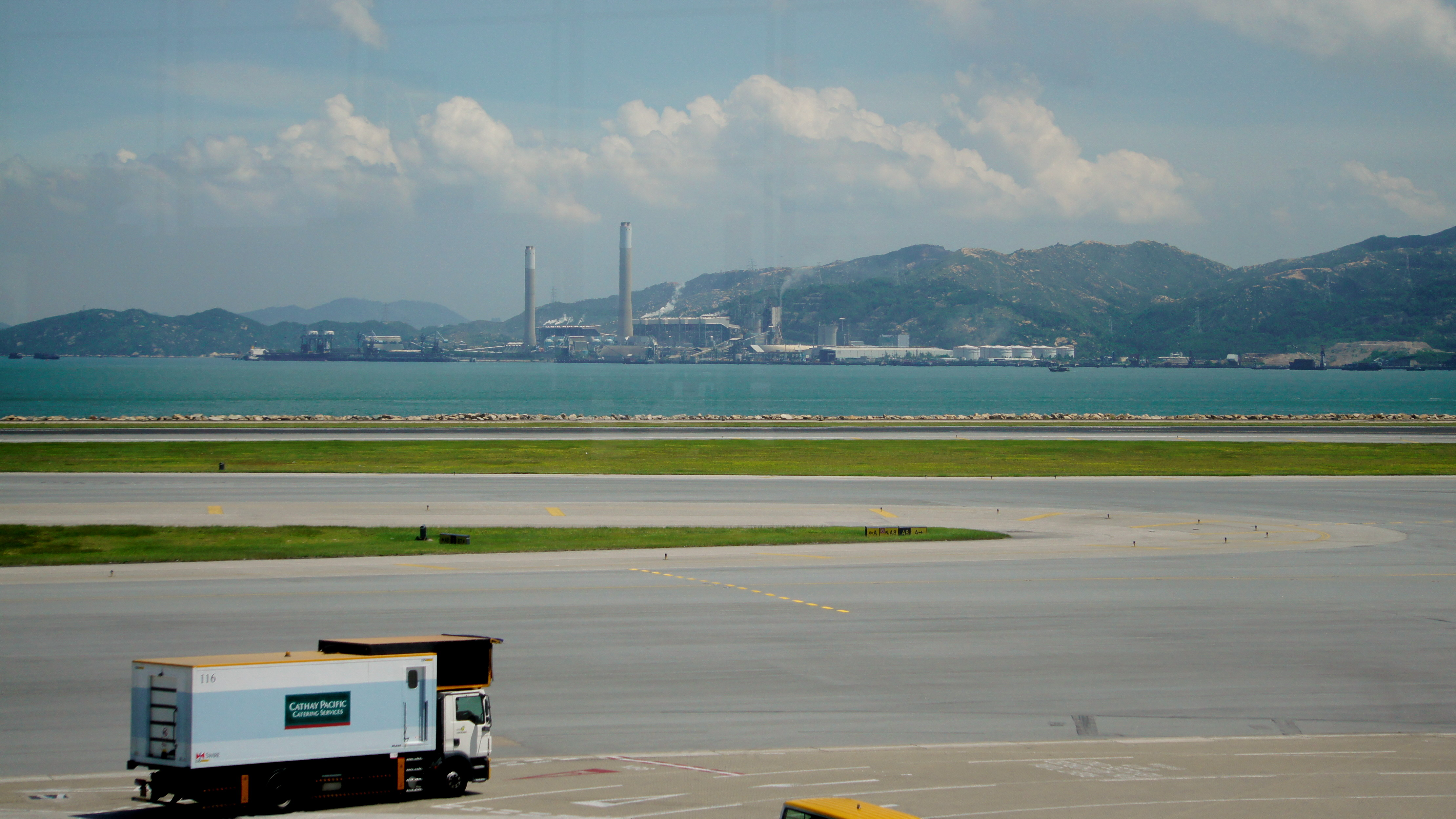 Tap Shek Kok, Hong Kong.